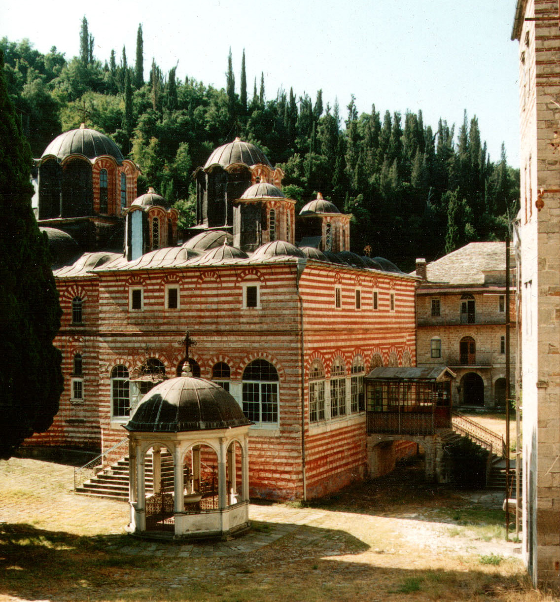 Katholikon of Zograf Monastery